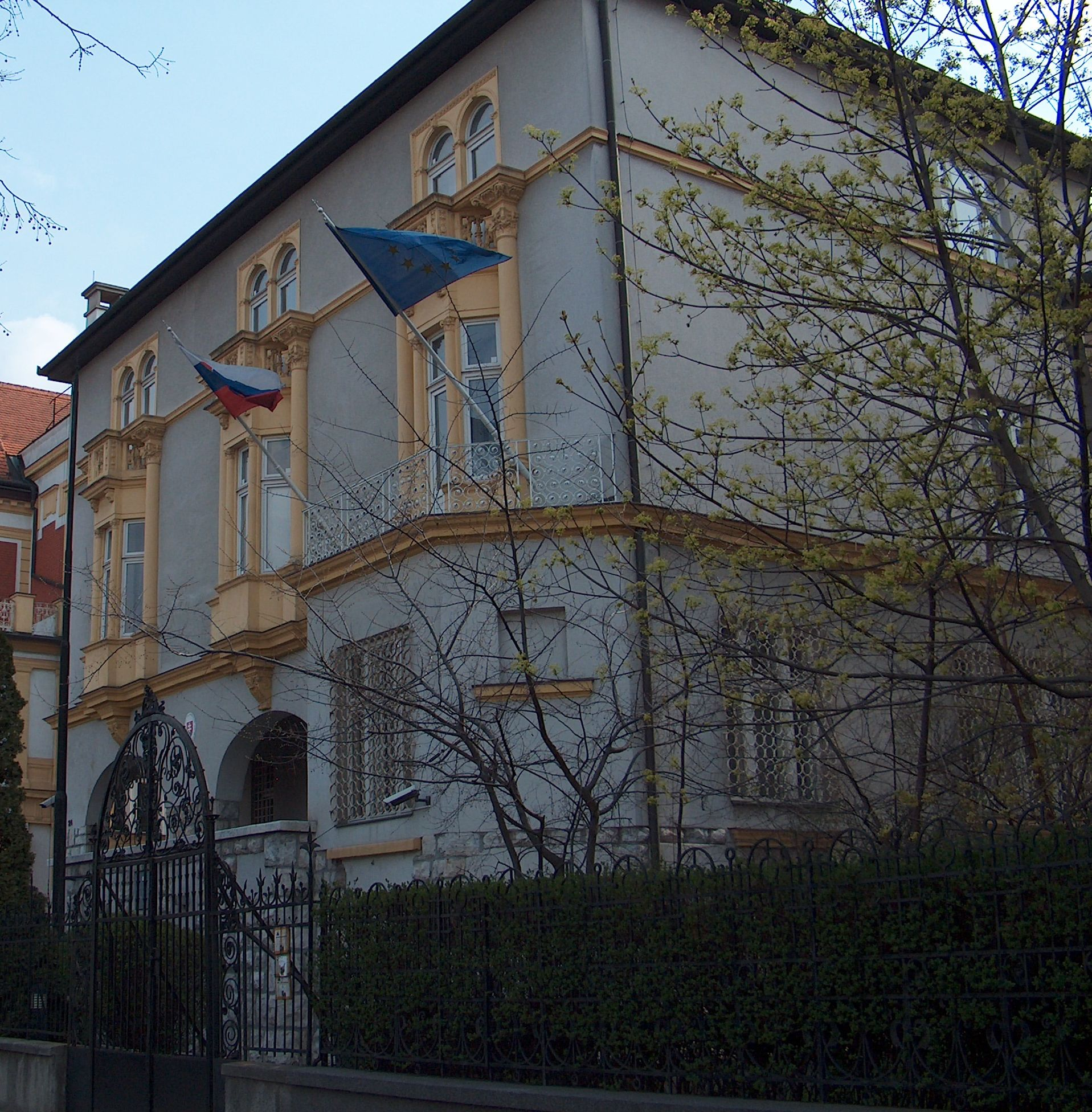 Embassy of Slovakia - Budapest